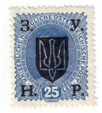 1919 Overprint Western Ukraine on Austrian stamp.